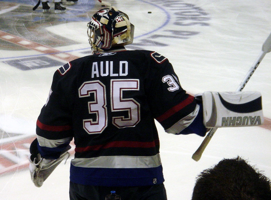 Former Vancouver Canucks goalie Alex Auld